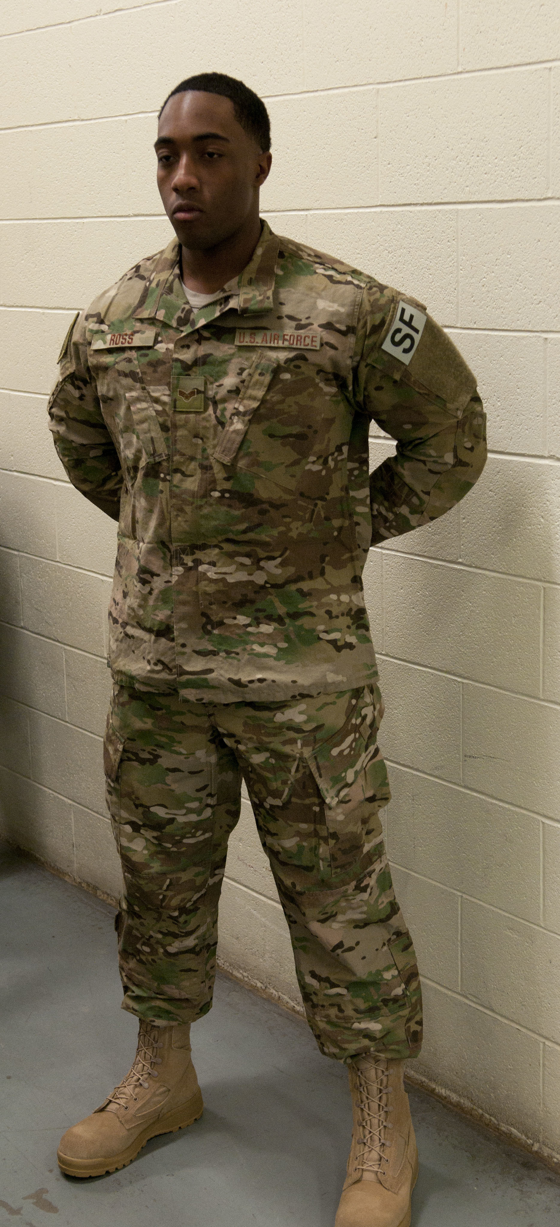 Senior Airman Demetris Ross, 790th Missile Security Forces Squadron Security Support Team, models the new Operation Enduring Freedom Camouflage Pattern uniform Feb. 2, 2015, in the Peacekeeper High Bay on F.E. Warren Air Force Base, Wyo. Defenders across the 20th Air Force who travel out and protect the missile fields will receive the new uniforms as part of the Air Force Global Strike Command Model Defender Program. (U.S. Air Force photo by Airman 1st Class Brandon Valle)